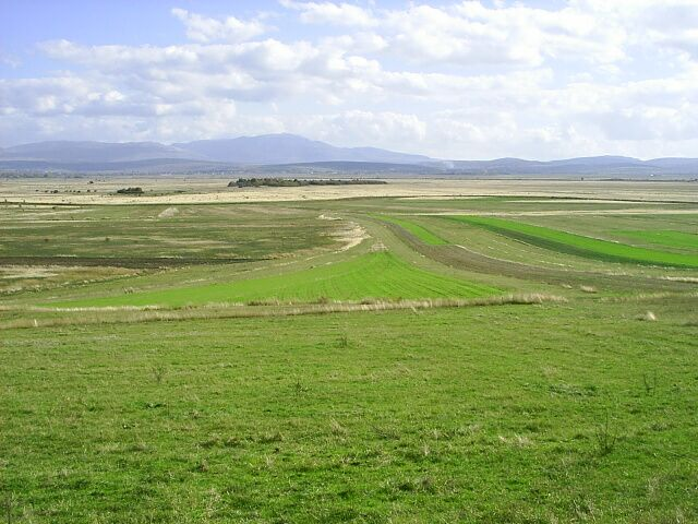 Livno field (polje), BiH